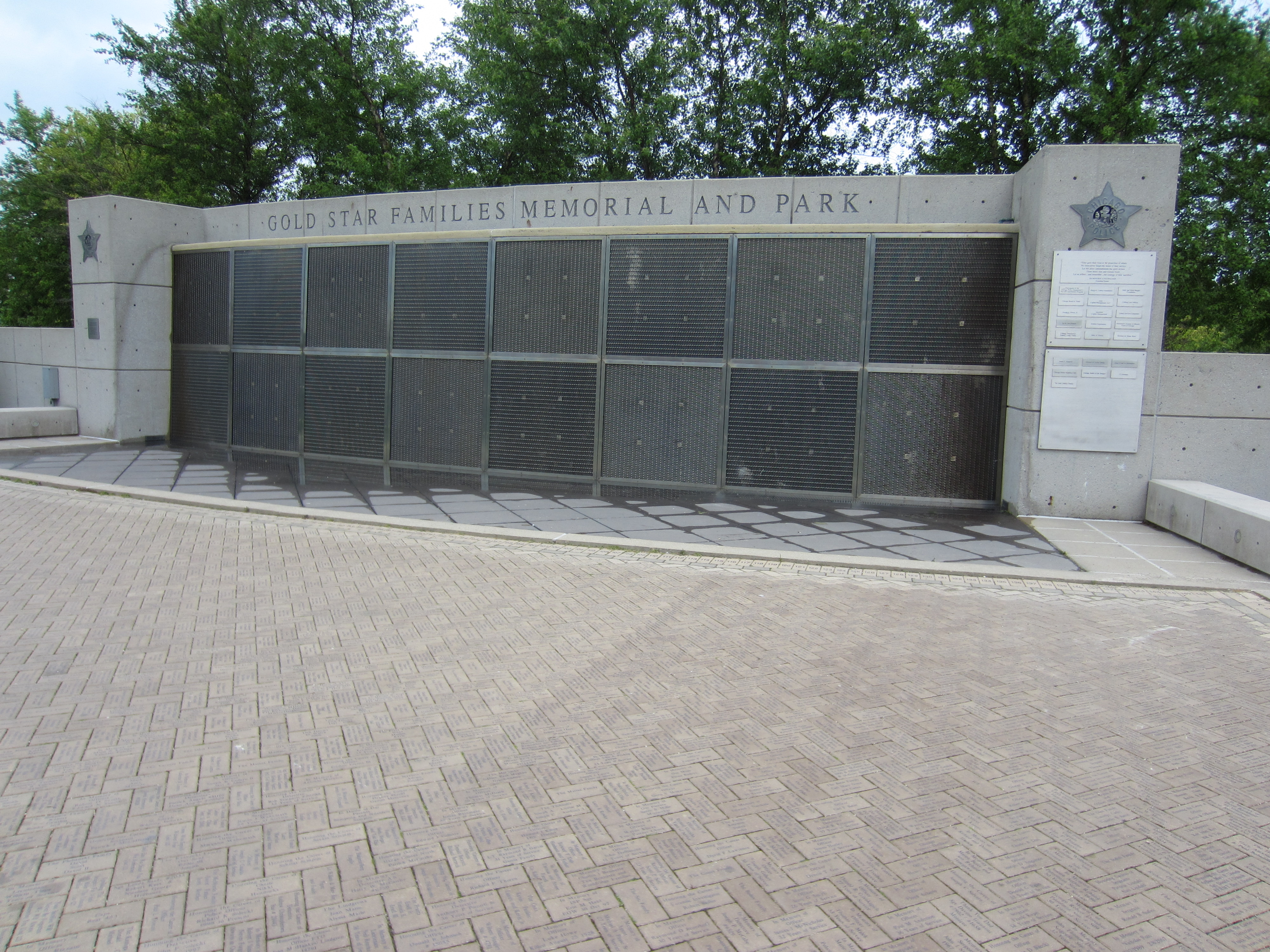 Chicago, Illinois, June 2015